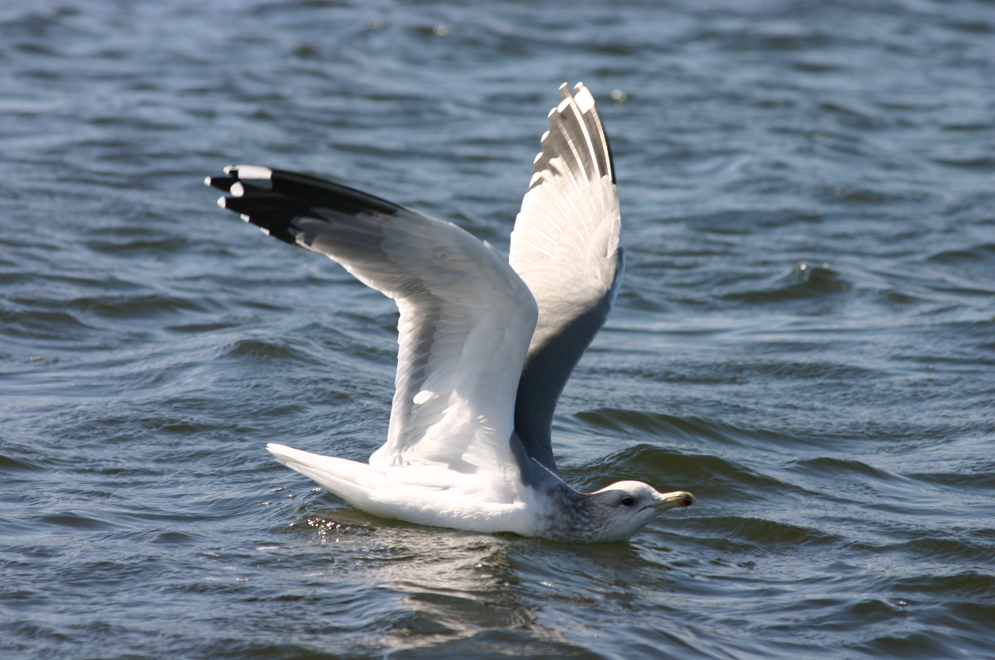 A California Gull Larus californicus in adult winter plumage, raising its wings high up while paddling in the water; at Shoreline Lake, Shoreline Park, Mountain View, California.